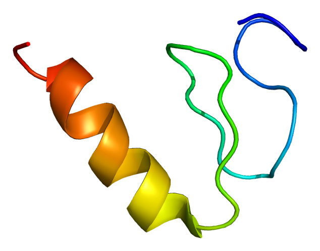 Structure of the KLF3 protein. Based on PyMOL rendering of PDB 1p7a.